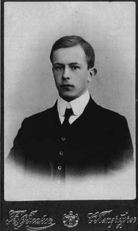 Richard Vasmer was Russian numismatist and orientalist.